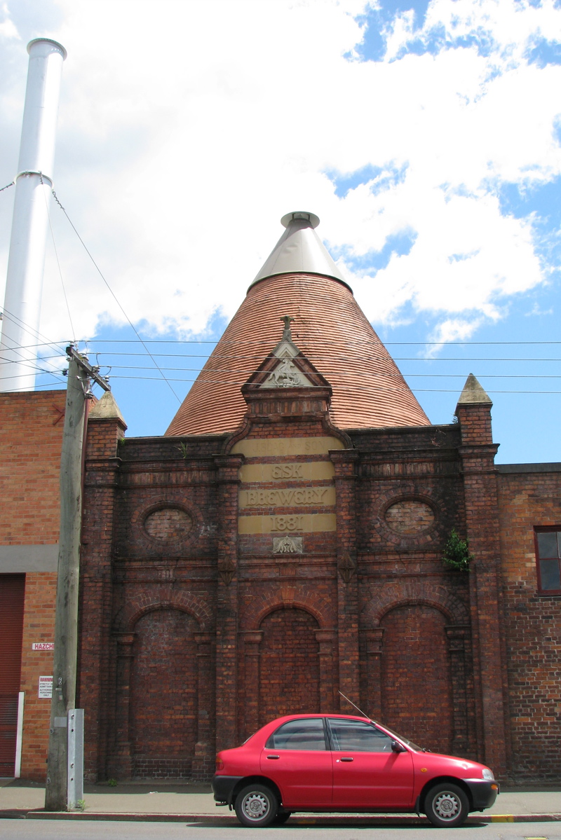 Boags Brewery, Launceston